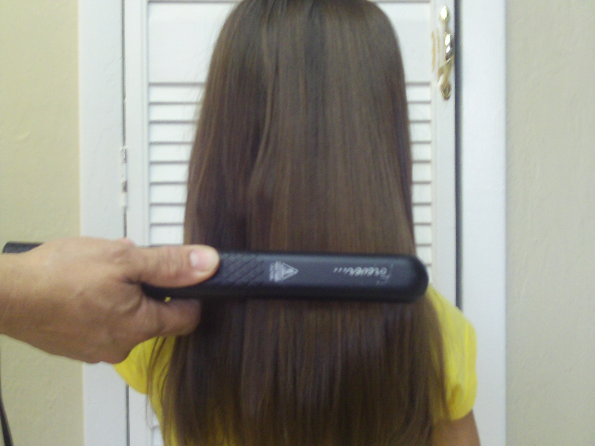 Example:hair being straightened with a flat iron.